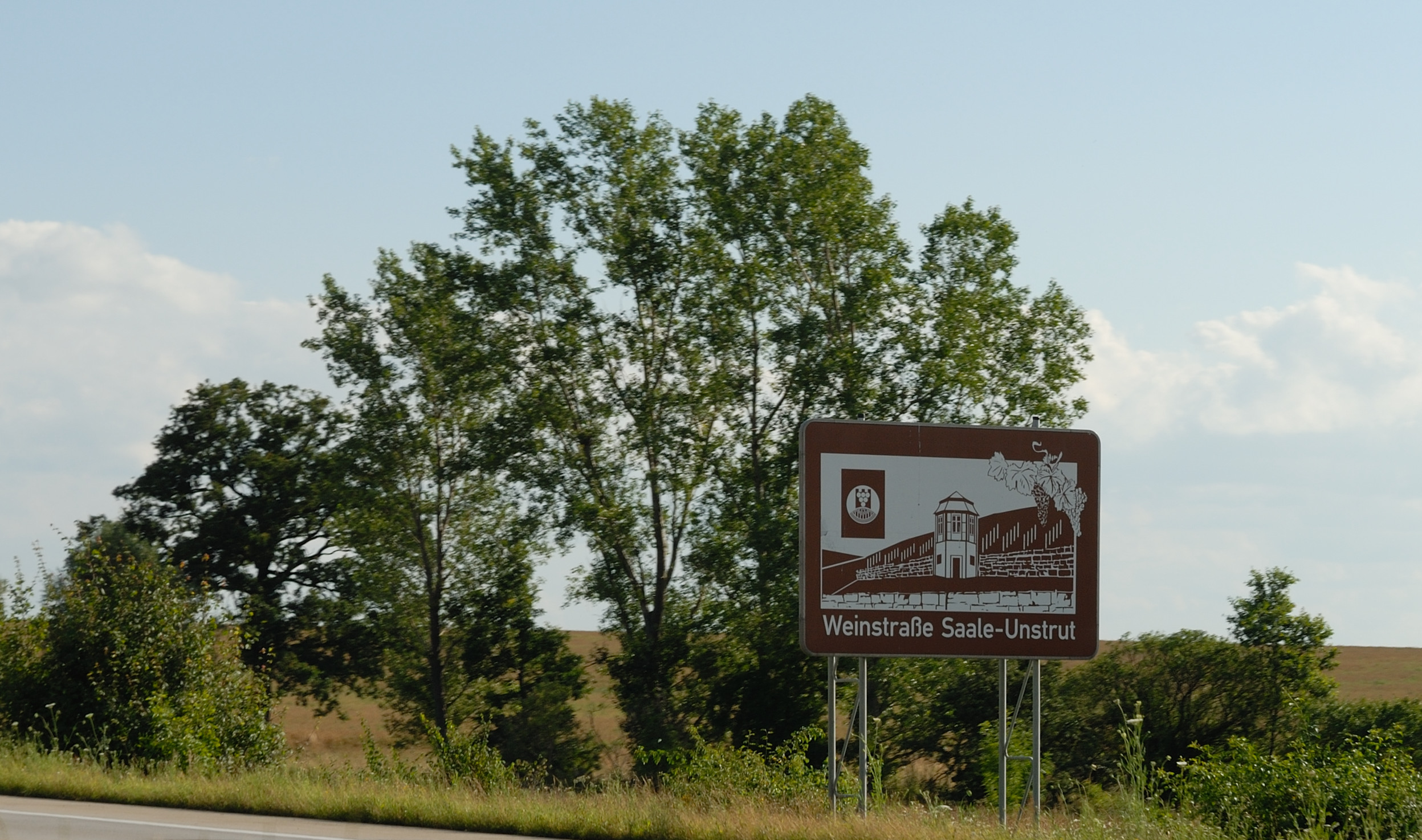 Road sign for winegrowing in the Saale-Unstrut area. Road shot from A 9.